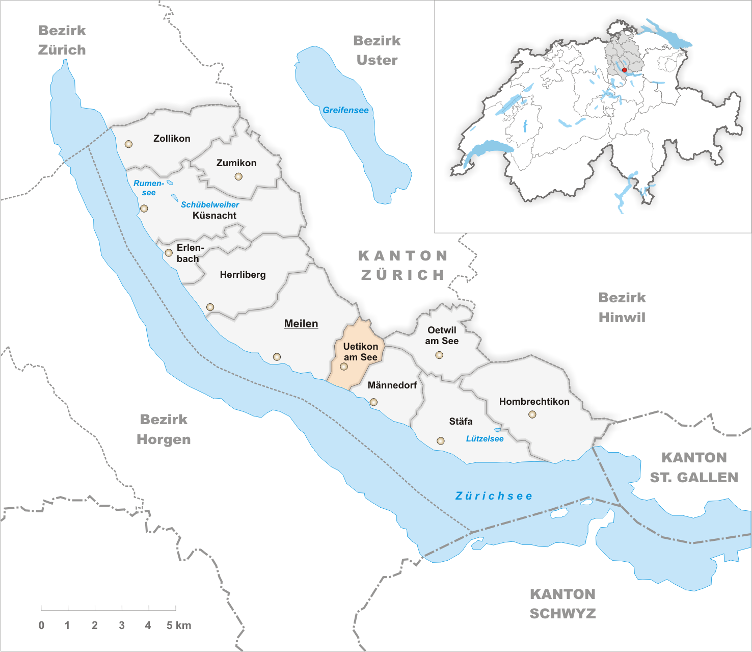 Municipality Uetikon am See